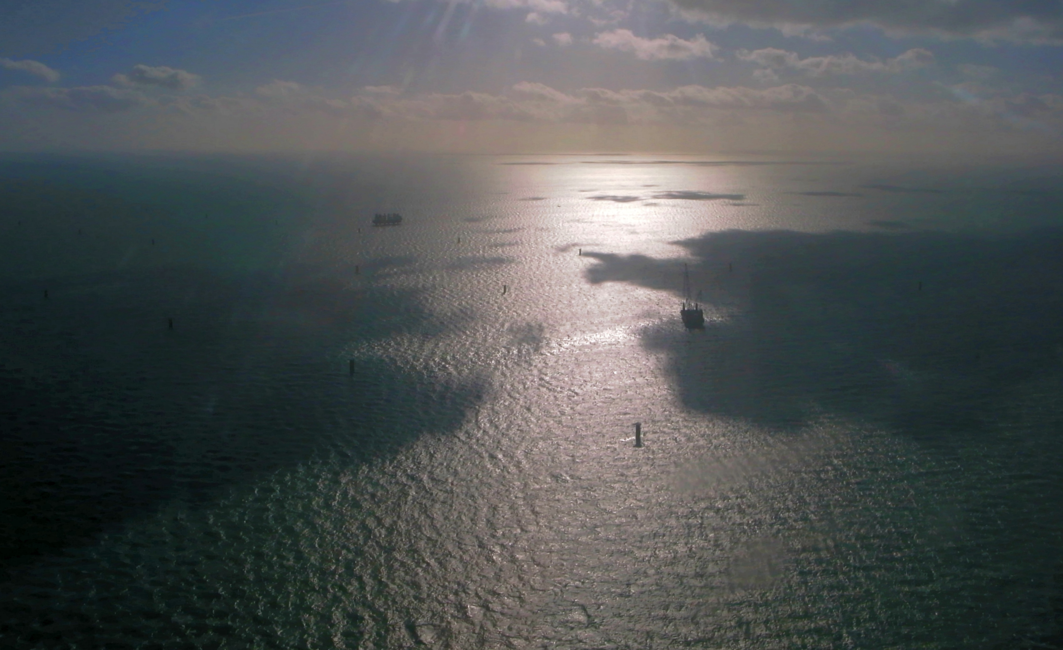 Wind turbines under construction in the North Sea east of Kent. Taken from light aircraft GBIRT